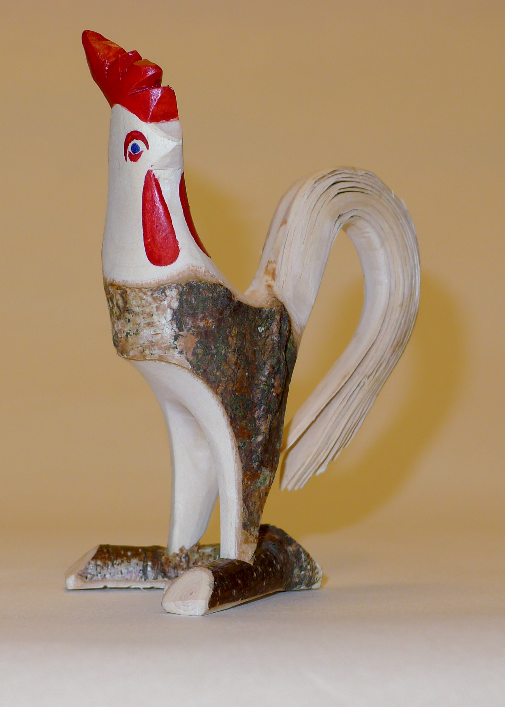 A roaster made out of a piece of birch wood. Made by Kjell Arvidsson, Torsås, Sweden.